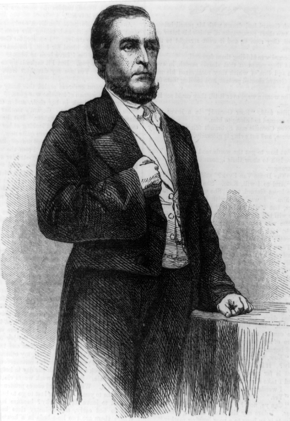 President of Costa Rica Juan Rafael Mora Porras (1814-1860). Illustration in "Harper's Weekly", v. 3, 1859, p. 668.